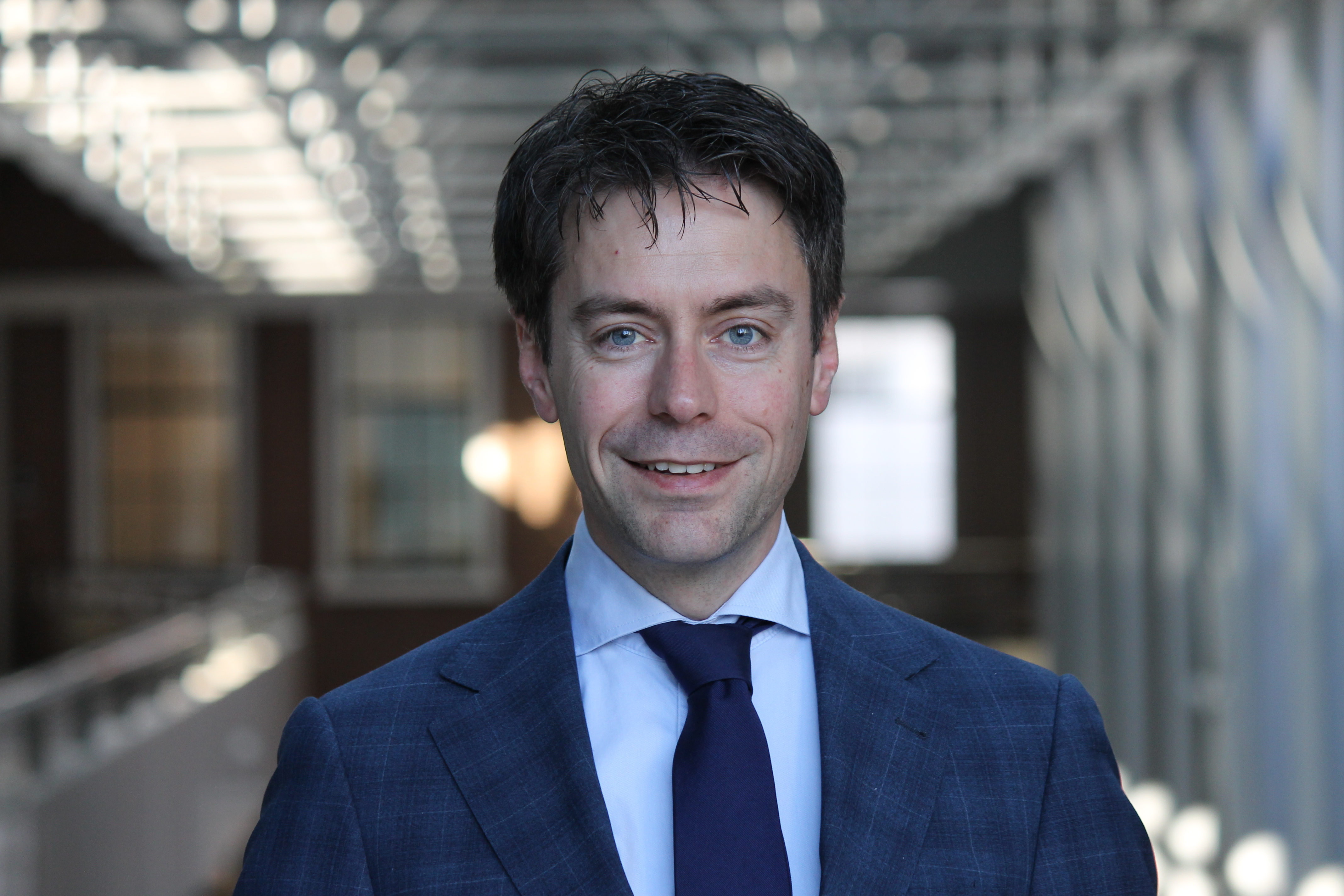 Chris Stoffer, SGP member of the House of Representatives of the Netherlands